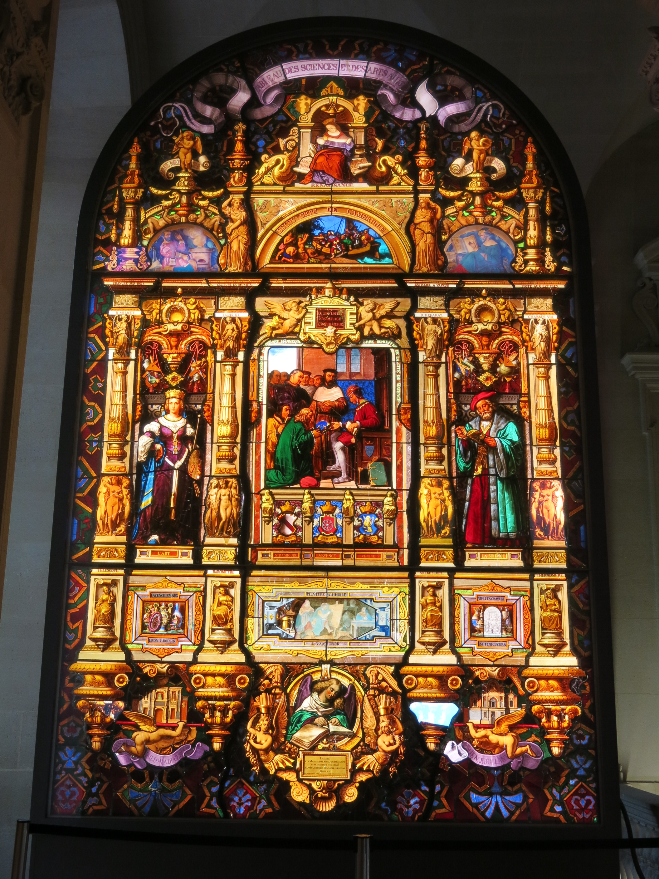 Stained glass window about the inventions and discoveries of the Renaissance. Louvre museum (Paris, France). Central part shows the French king Louis XI receiving the first printed Bible.